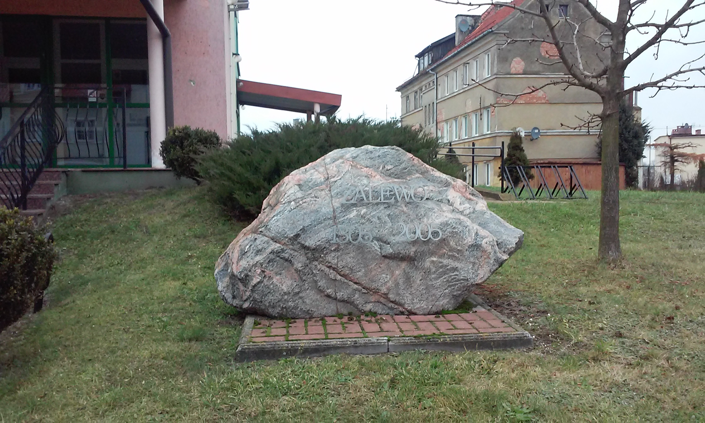 Zalewo, Warmian-Masurian Voivodeship, Poland